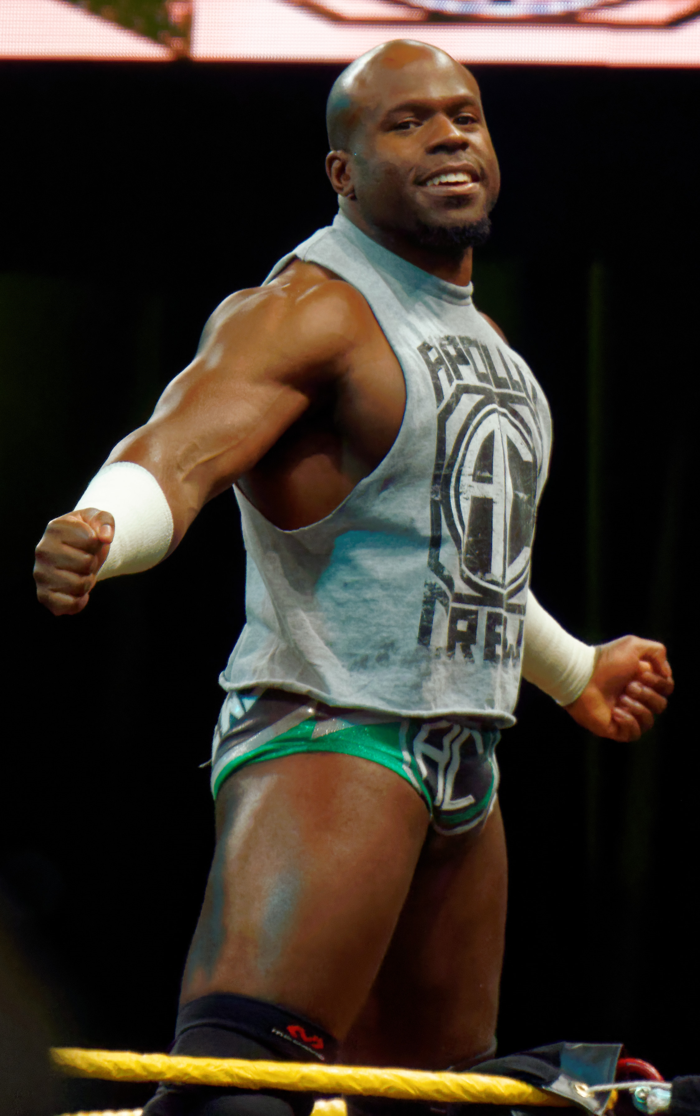 Apollo Crews at WrestleMania 32 Axxess in April 2016.